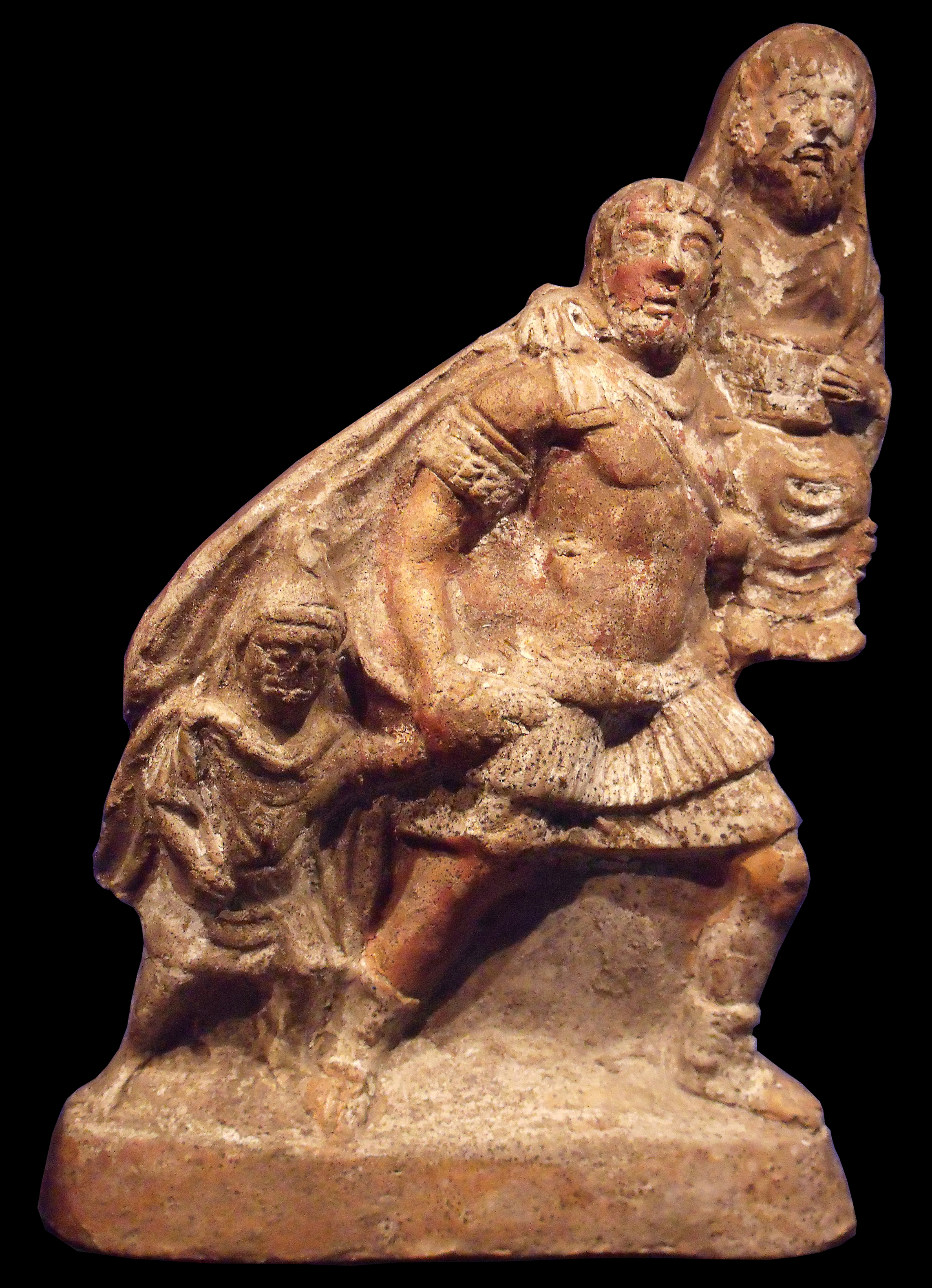 Aeneas escaping from Troy, carrying his father Anchises on his shoulders and giving his hand to his son Ascanius.